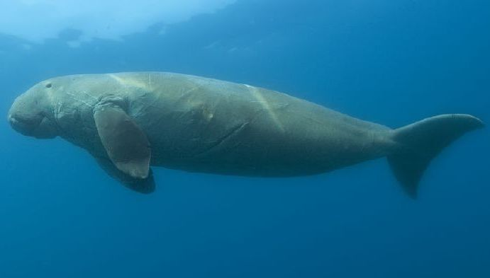 Dugong dugon